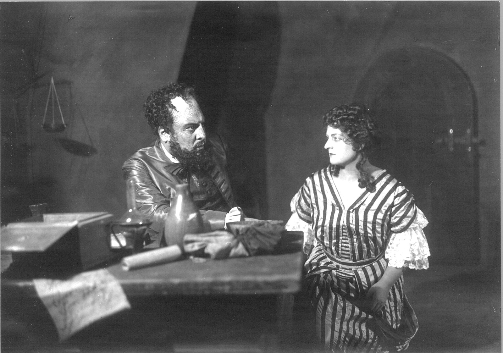 Cardillac. Opera by Paul Hindemith with Libretto by Ferdinand Lion from story by E. T. A. Hoffmann. Performed at the Staatsoper Dresden, on 09.11.1926 Conducted by Fritz Busch. Scene II. Act with Robert Burg as Cardillac and Claire Born as his daughter. Photo by: Richter, Ursula, 1926.11 Original (Paper, 11,5 x 16,4 cm, black and white) Owner: SLUB / Deutsche Fotothek PERMALINK: Author of the metadata: Deutsche Fotothek